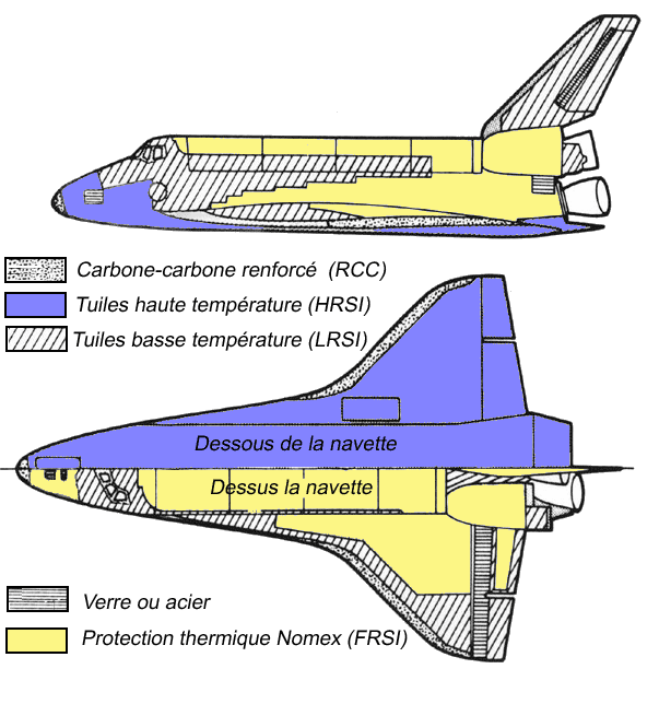 Space shuttle : tiles repartition